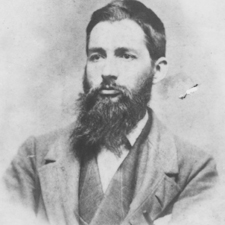 Jedediah Hotchkiss Repository: Library of Congress Prints and Photographs Division, Washington, DC 20540 USA Digital Id: cph 3a16297 //hdl.loc.gov/loc.pnp/cph.3a16297 Control Number: cph3151 Reproduction Number: LC-USZ62-14015 (b&w film copy neg.)